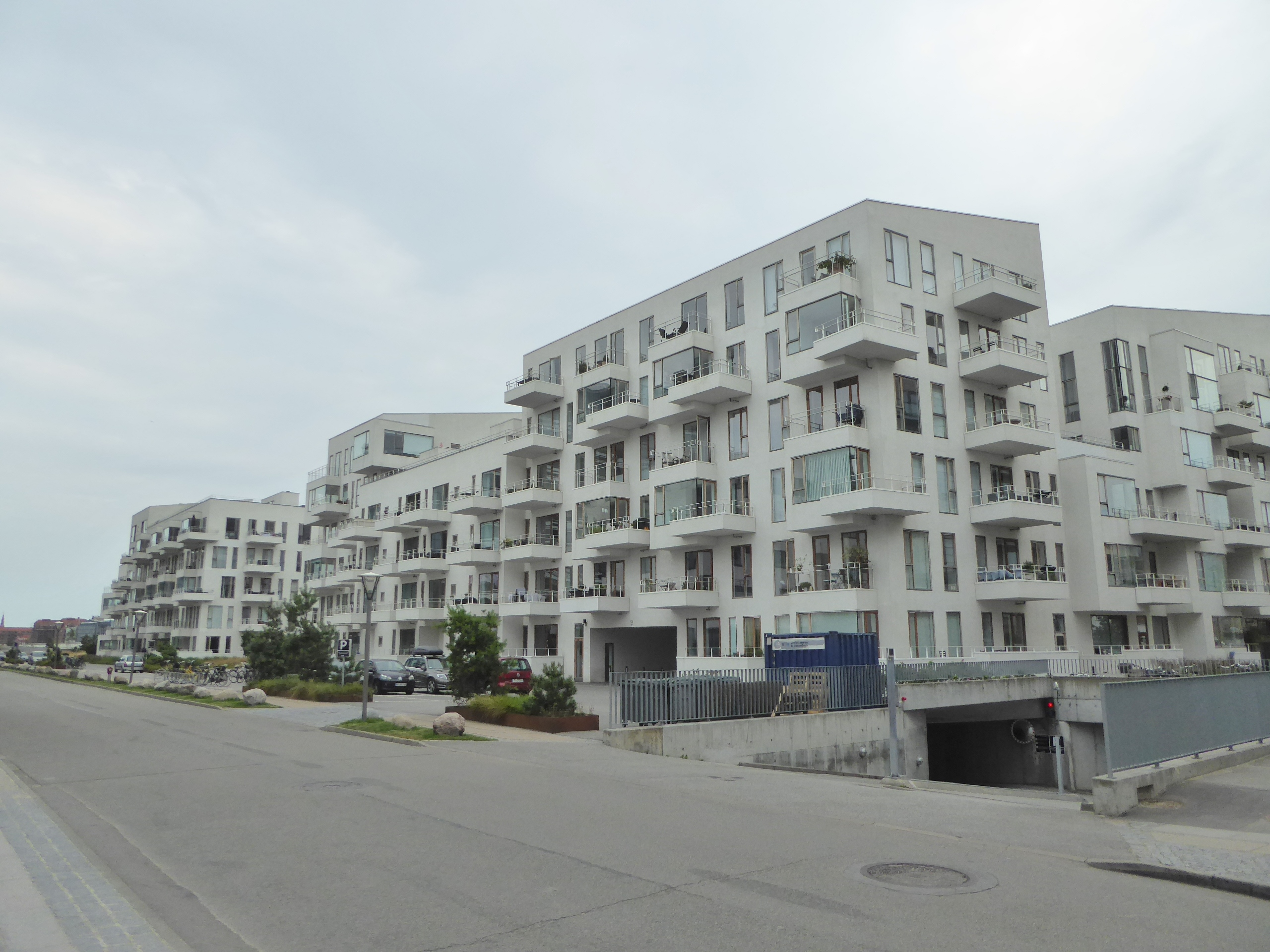 The apartment buildings Havneholmen on the island of the same name in Vesterbro in Copenhagen.